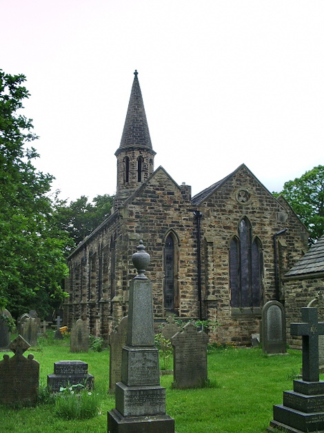 The Parish Church of St James, Briercliffe, Burnley